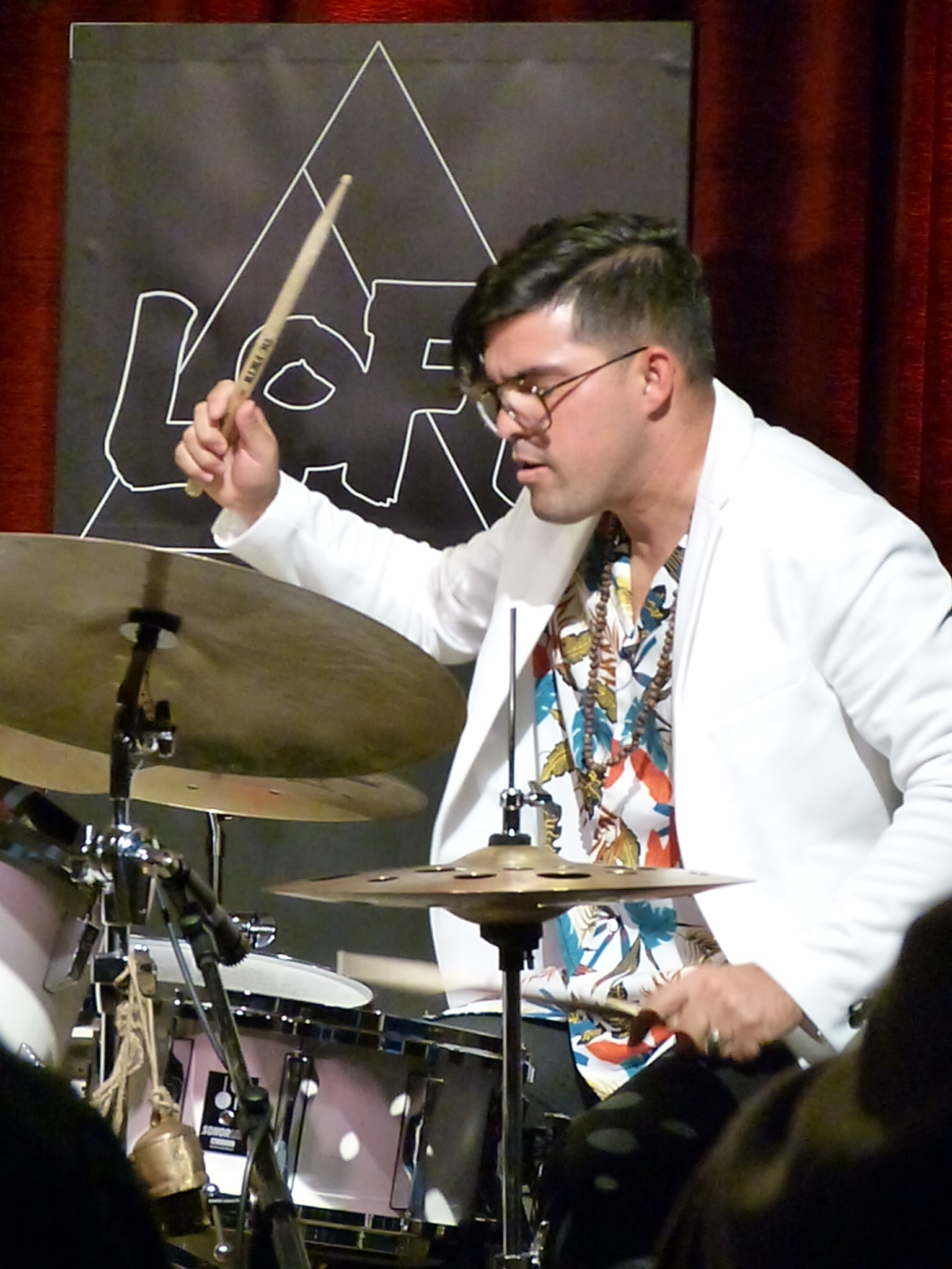 Michael Olivera (dr)) in concert of the Daniel García Diego Trio (with Daniel García Diego (p,comp), and Reinier Elizarde (b) at Loft (Cologne), Germany, May 9th, 2019